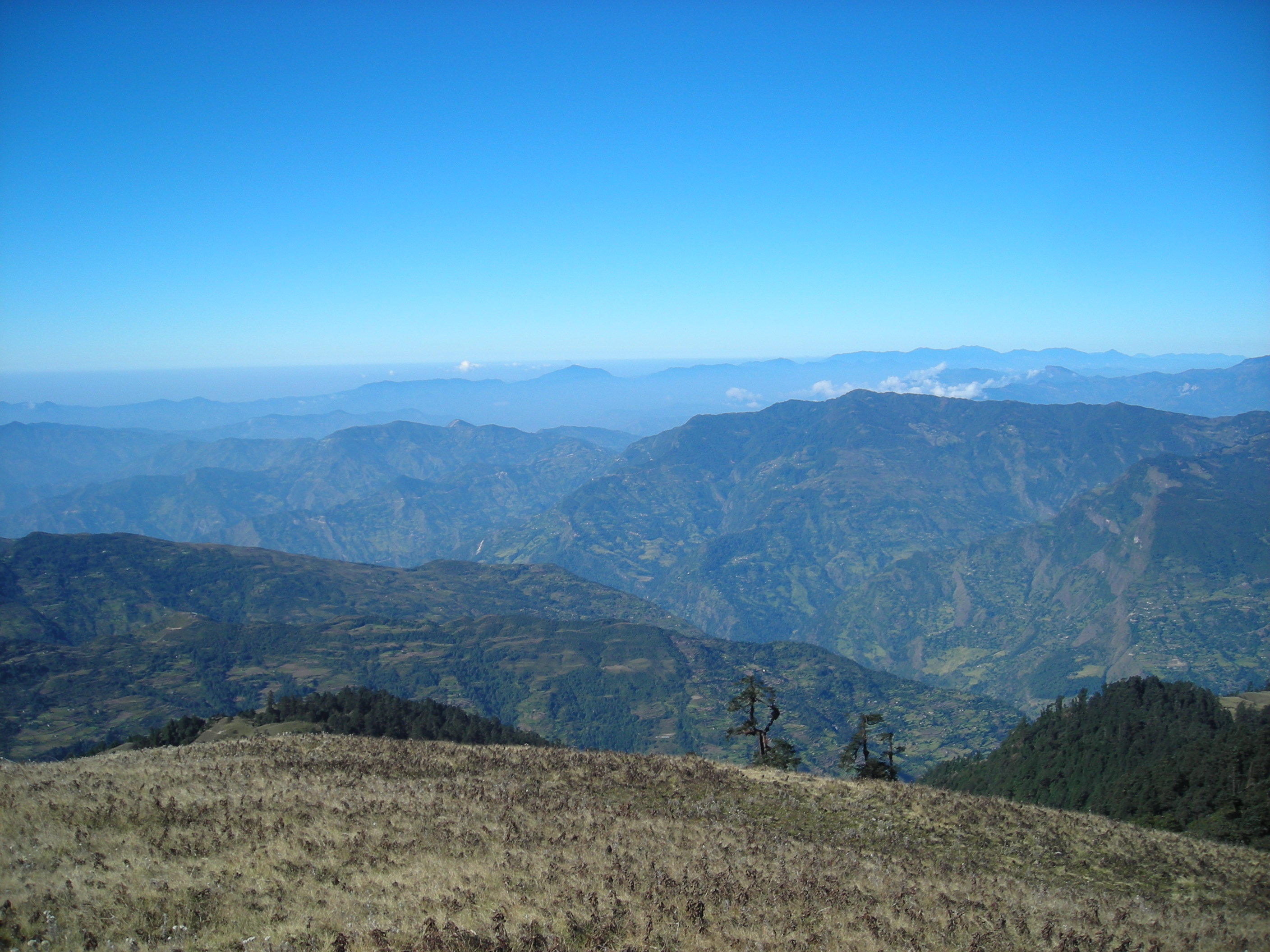 khijee-tholedamba